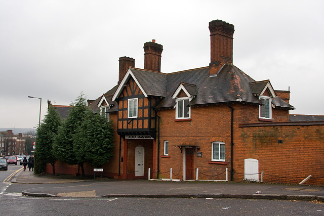 Alma Mansion is not a mansion in proportions, roughly the size of a pub. It is at the junction on Brent Street and Brent Green. This appears to be the entrance of the Alma White Centre. The following information is taken from the Barnet Council website at : - "...a small gothic complex called the Alma White Centre. In 1893 the Rev W H Seddon, Hon Secretary of the Church Army, purchased a house called Fosters, in Brent Street with the intention of building 'a Rescue Home (for fallen women), with a Chapel attached'. The site became St Saviour's Homes, for "feeble minded" women in 1897. In 1926 it was taken over by the Pillar of Fire Society, as a bible college, school and chapel." Further investigation shows that No.19 Brent Street is the home of the Alma White Pre-School and that the Pillar of Fire Society has a chapel in the same complex of buildings a little further down the hill.